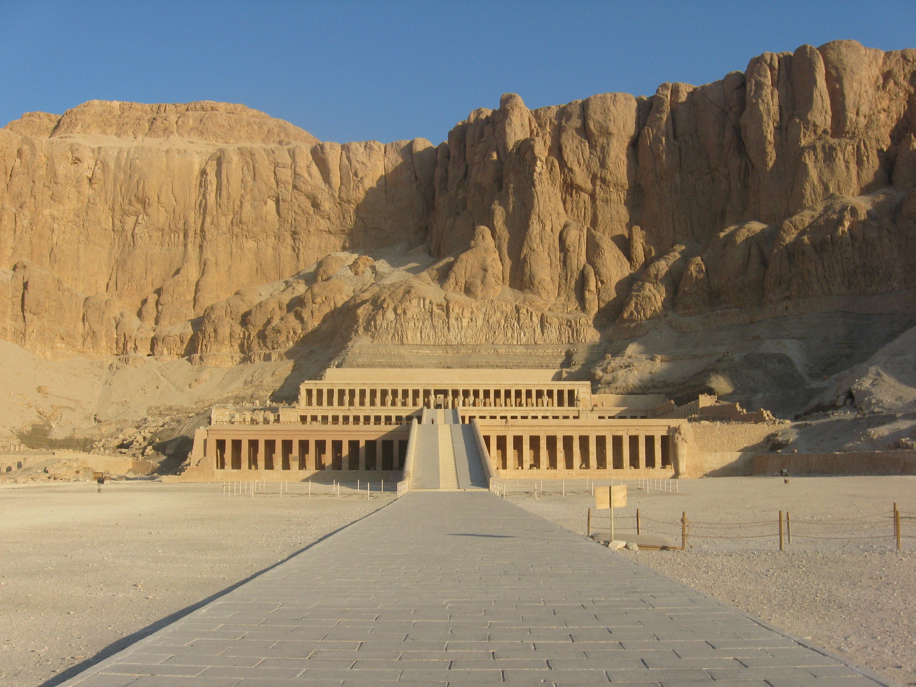 Hatshipsuit Temple